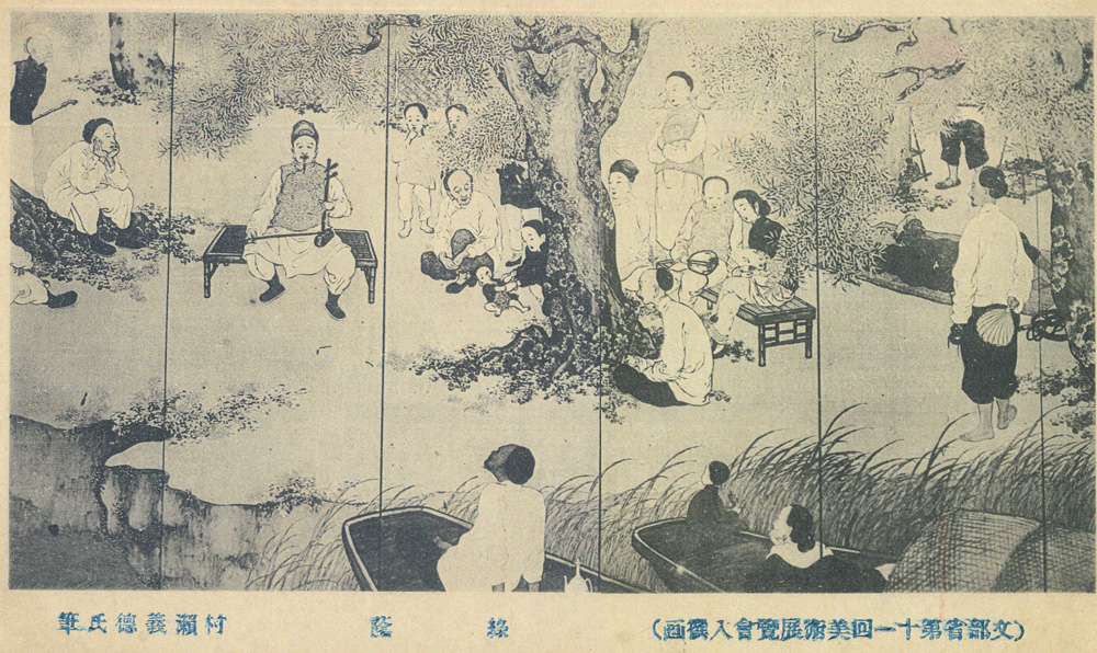 Green Shade by Murase Yoshinori, one of a set of postcards of works selected for the Eleventh Bunten, an art exhibition.